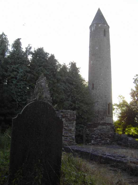 Timahoe Round Tower, County Laois, Eire